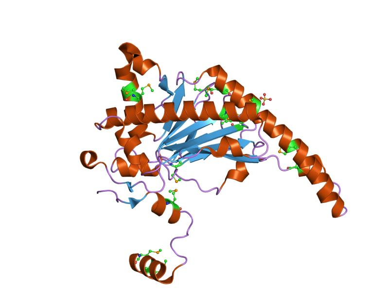 Cartoon representation of the molecular structure of protein registered with 1w9y code.